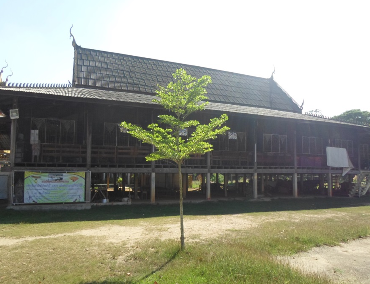 Wat Nam Rit Tai 01